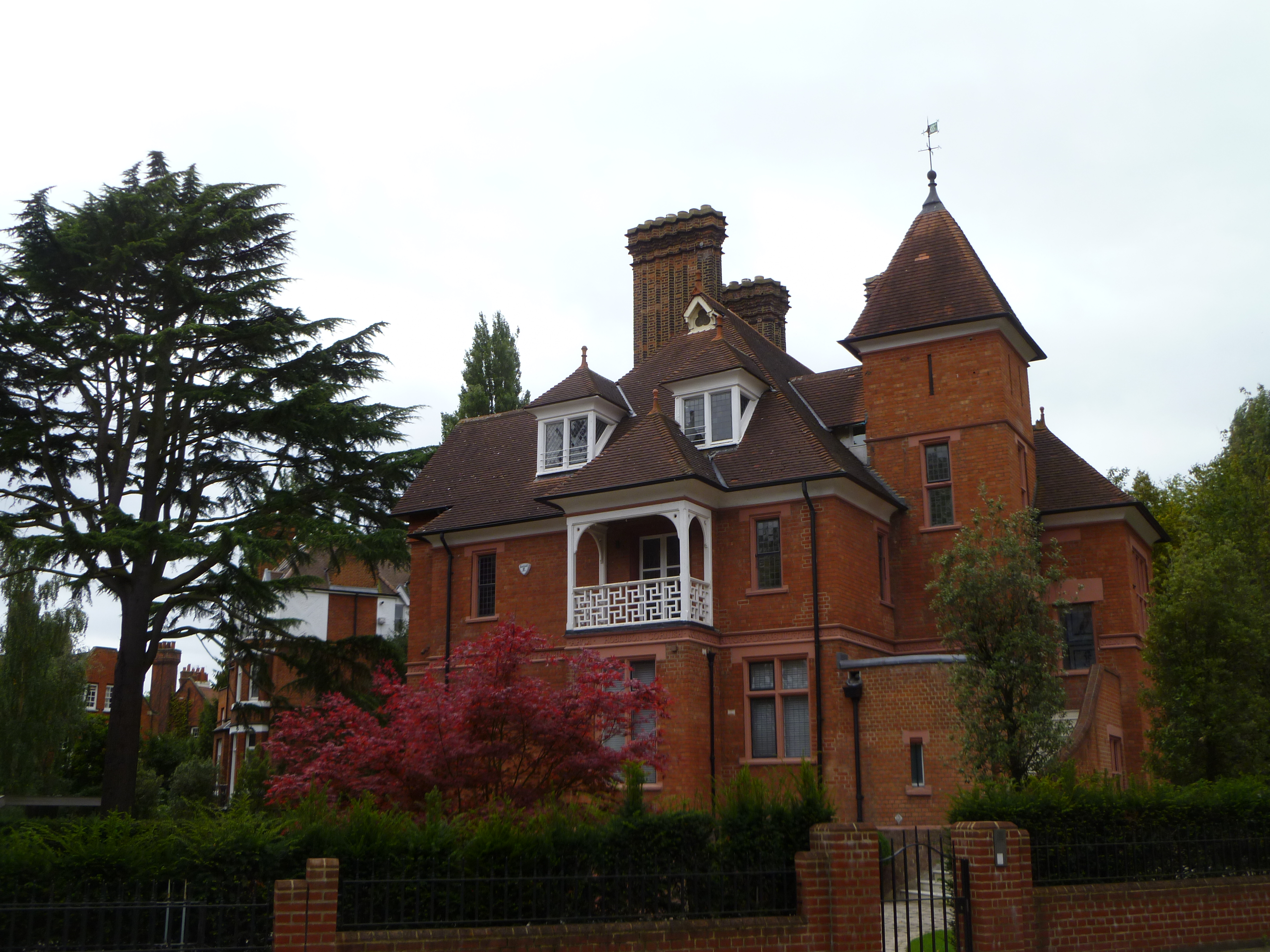 The house Ewan Christian (1814-95) designed for himself in 1881-82 in Well Walk, Hampstead, London.